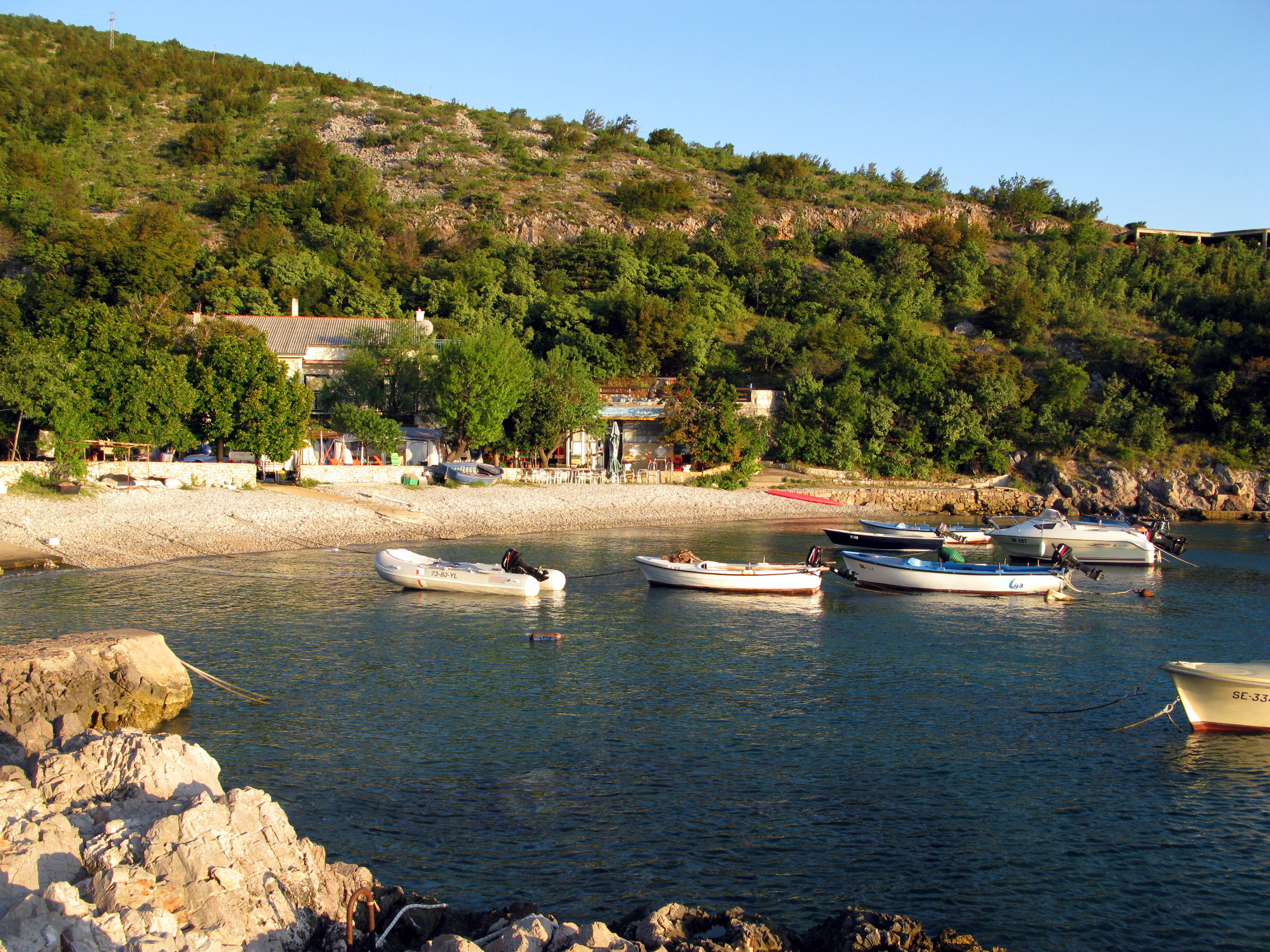 Bunica near Senj / Croatia / Adriatic Sea with Camping Bunica V.